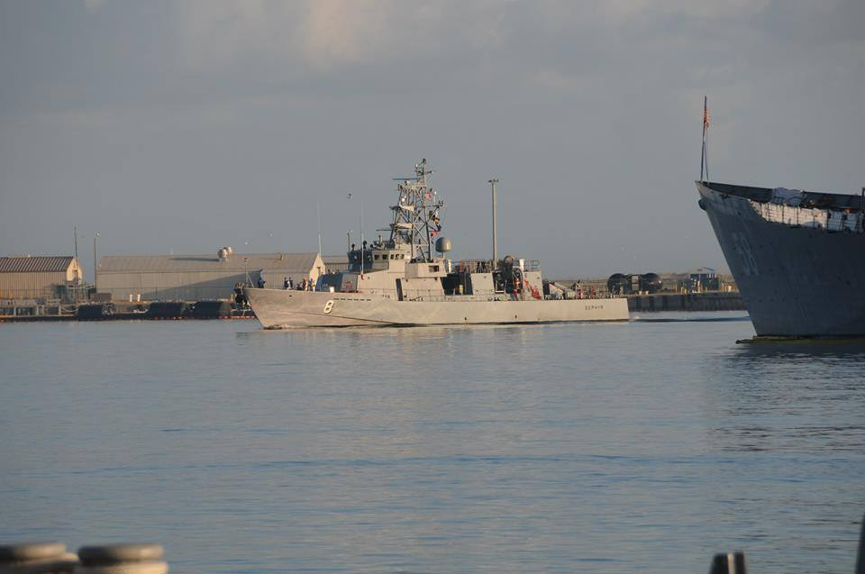 The U.S. Navy Cyclone-class coastal patrol ship USS Zephyr (PC-8) pulling into Naval Station Mayport, Florida (USA). The bow of the frigate USS Samuel B. Roberts (FFG-58) is visible on the right.